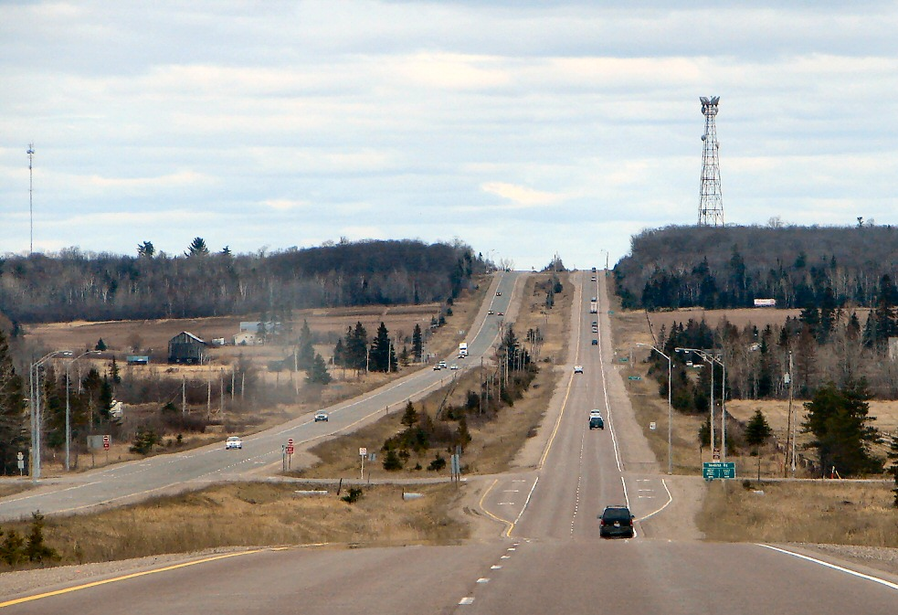 Highway 17 between Desbarats and Echo Bay, Ontario, Canada